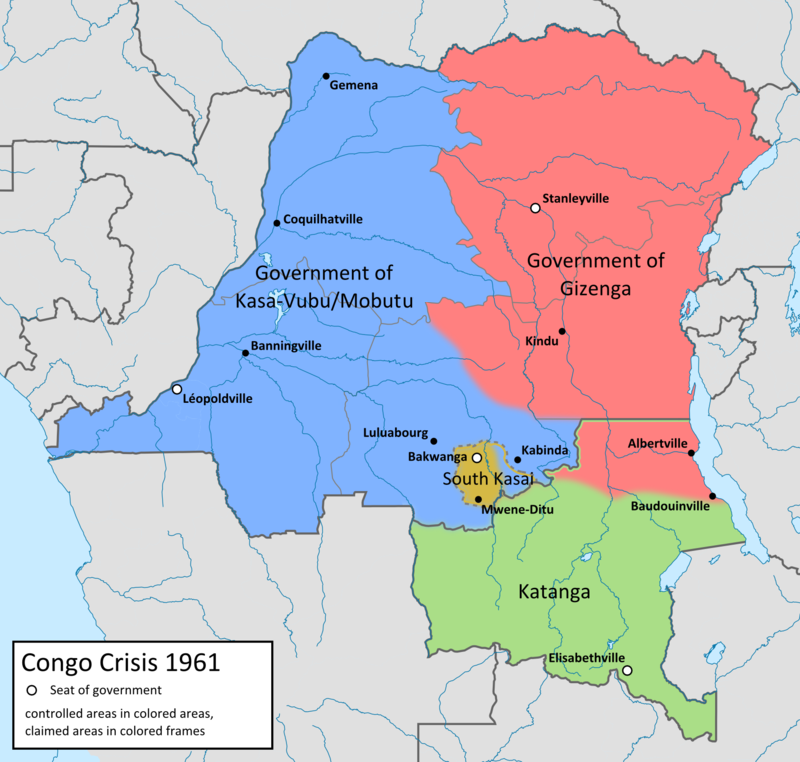 Map of Congo in 1961 (Congo crisis), in English.